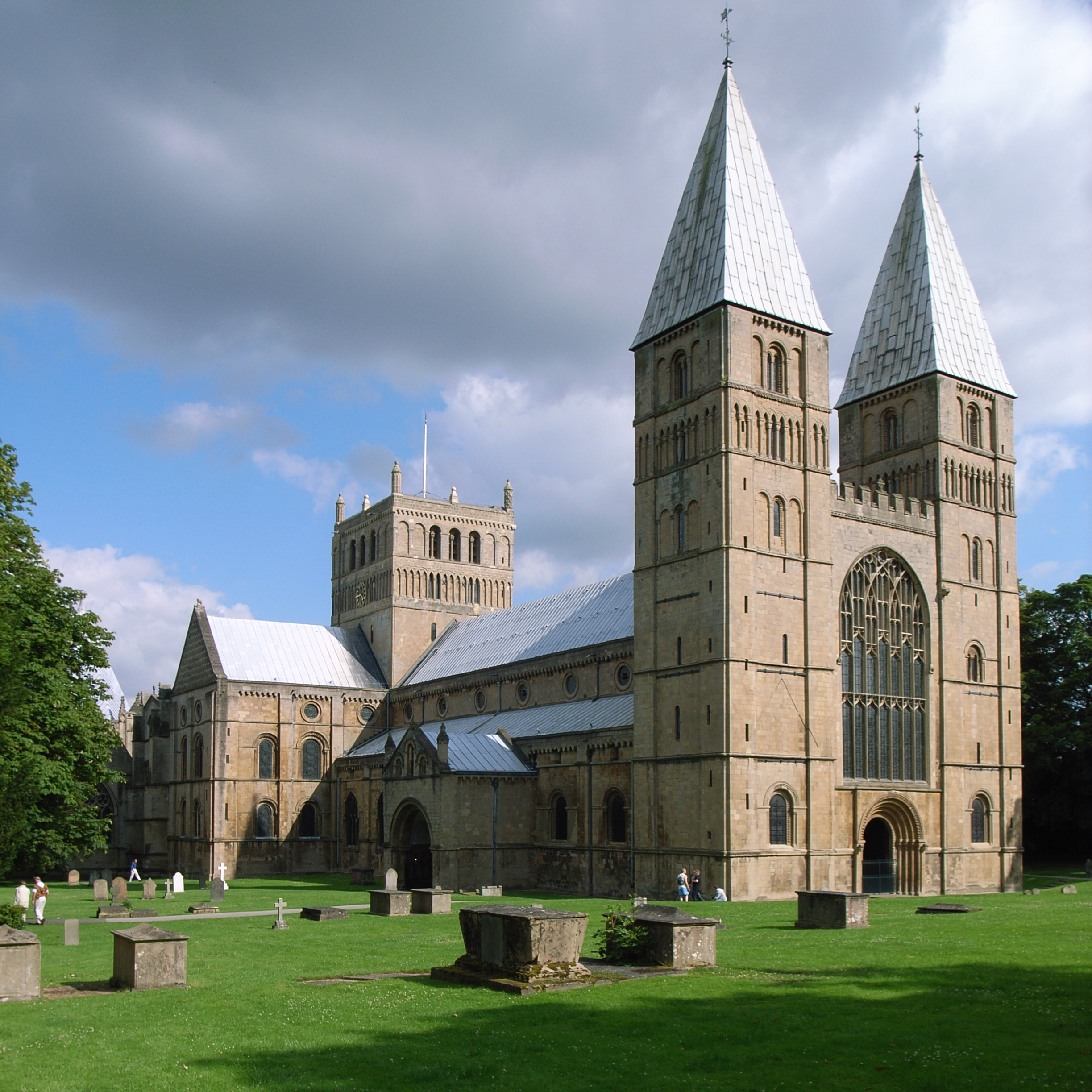 Southwell Minster - view from the north west